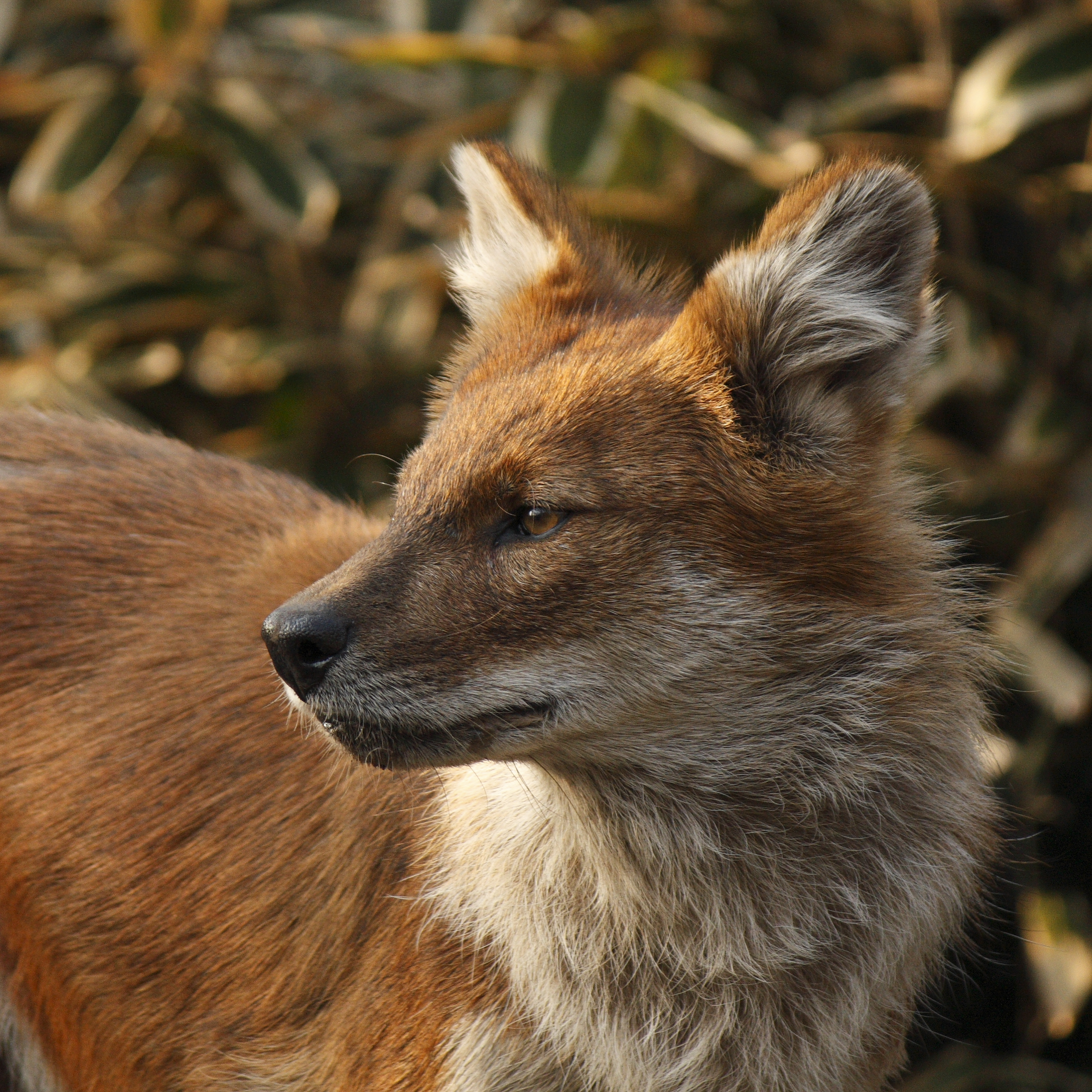 Dhole in Ueno, Tokyo